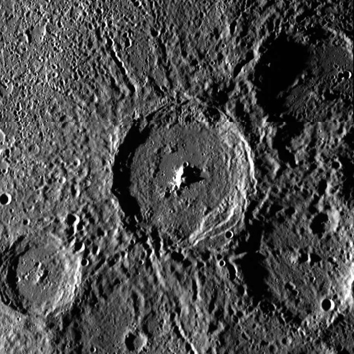 Lu Hsun crater (center) on Mercury. Mosaic of MESSENGER Wide Angle Camera images. Upper 1/3 of image was scaled to match the lower 2/3, and then both were cropped to center on Lu Hsun. Statistics for lower image (EW0228155905G): Emission Angle: 17.3 Incidence Angle: 81.8 Latitude: -2.7 Longitude: 336.3 Phase Angle: 97.3